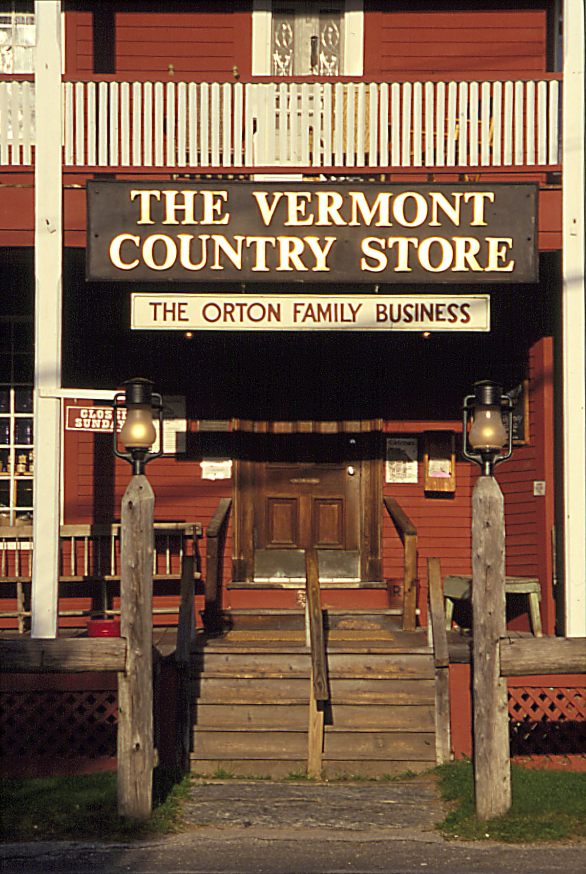 The Vermont Country Store in Weston, VT during the summer.